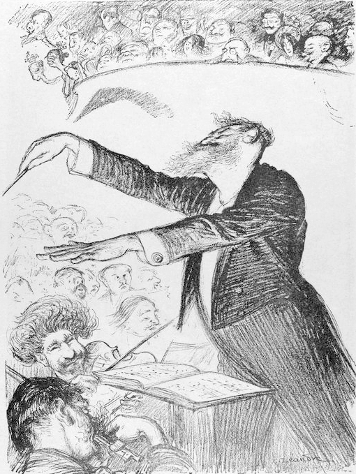 French conductor Édouard Colonne (1838-1910). "The Châtelet concerts. M. Édouard Colonne letting out a pianissimo". Drawing by Charles Léandre (1862-1934) published in Le Rire.